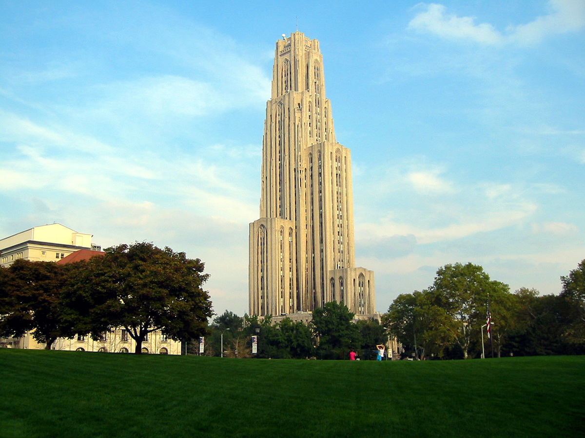 The Cathedral of Learning at the University of Pittsburgh. photo by Michael G White